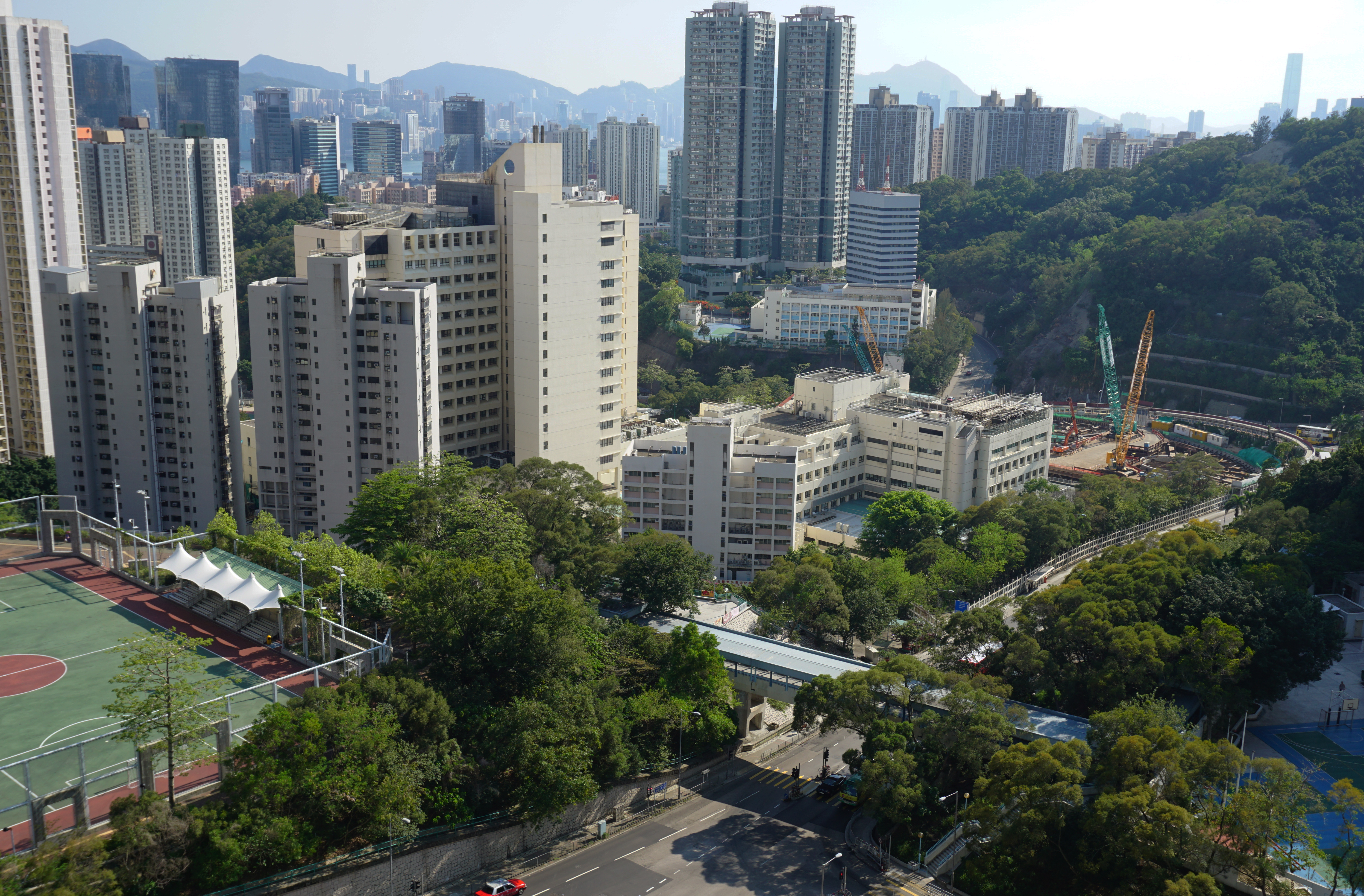 United Christian Hospital in Kwun Tong, Hong Kong.